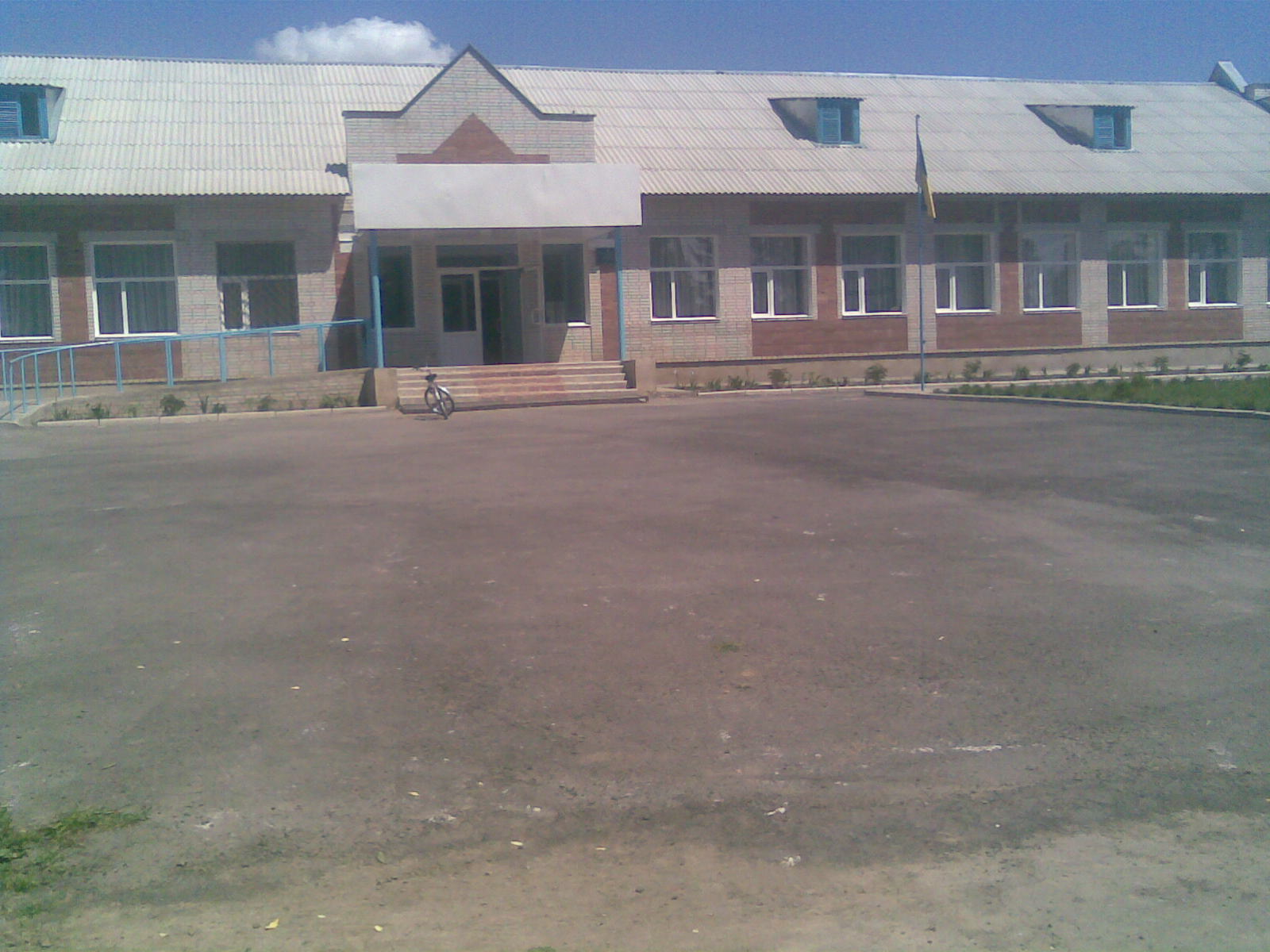 Нове приміщення школи